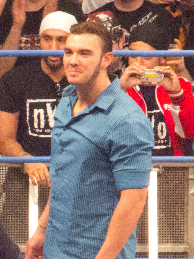 Garett Bischoff in the ring at a TNA Impact Wrestling television taping at Wembley Arena on January 28, 2012. Cropped from original image.